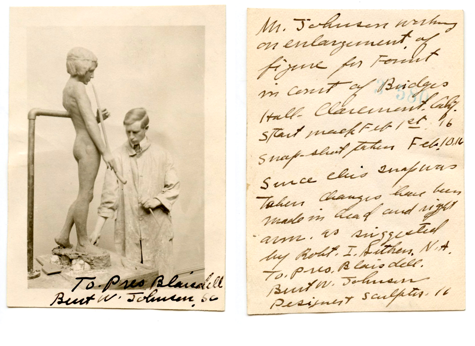 Burt W. Johnson, sculptor, working on a plaster model of Spanish Music (aka The Spirit of Spanish Music, Pastoral Flutist, or Youth) sculpture, created for a fountain in Lebus Court, Mabel Shaw Bridges Hall of Music, Pomona College, Claremont, California